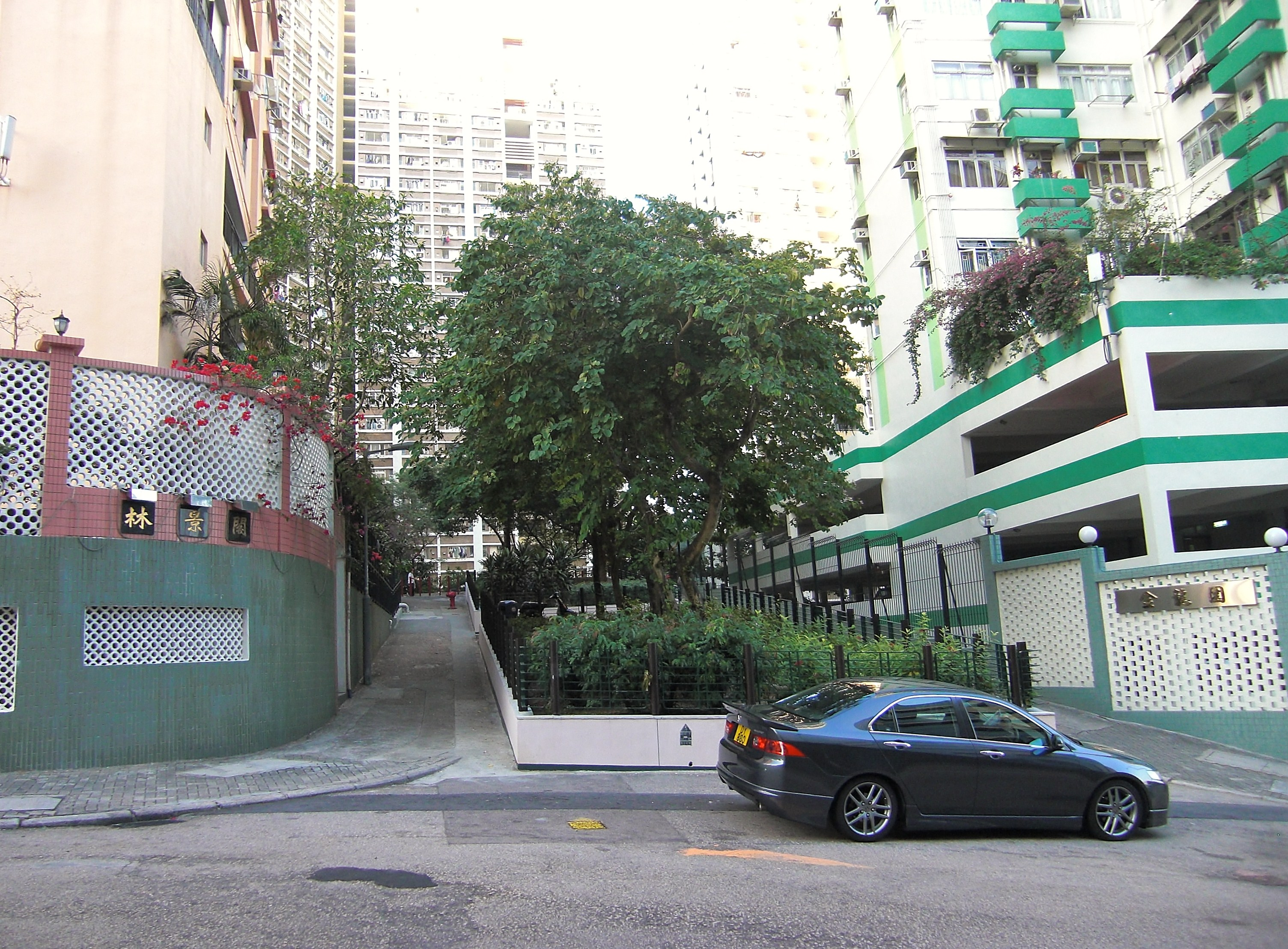 A view taken form Kung Lok Road. Sau Yan Path is seen in the middle of the photograph.